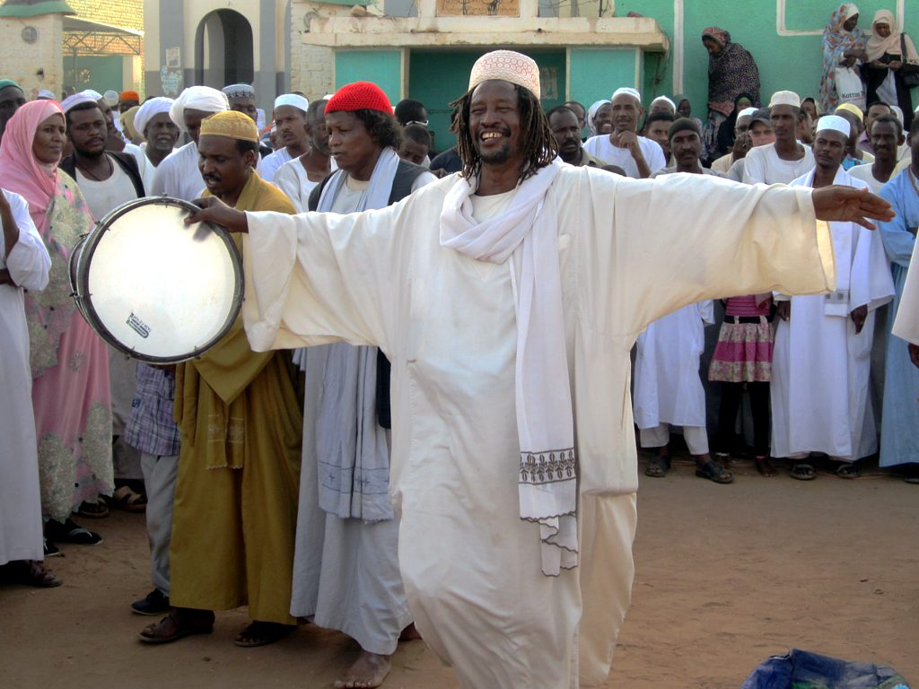 A Sufi dervish drums up the Friday afternoon crowd at the Hamed el-Nil Mosque and Tomb in Omdurman, Sudan.